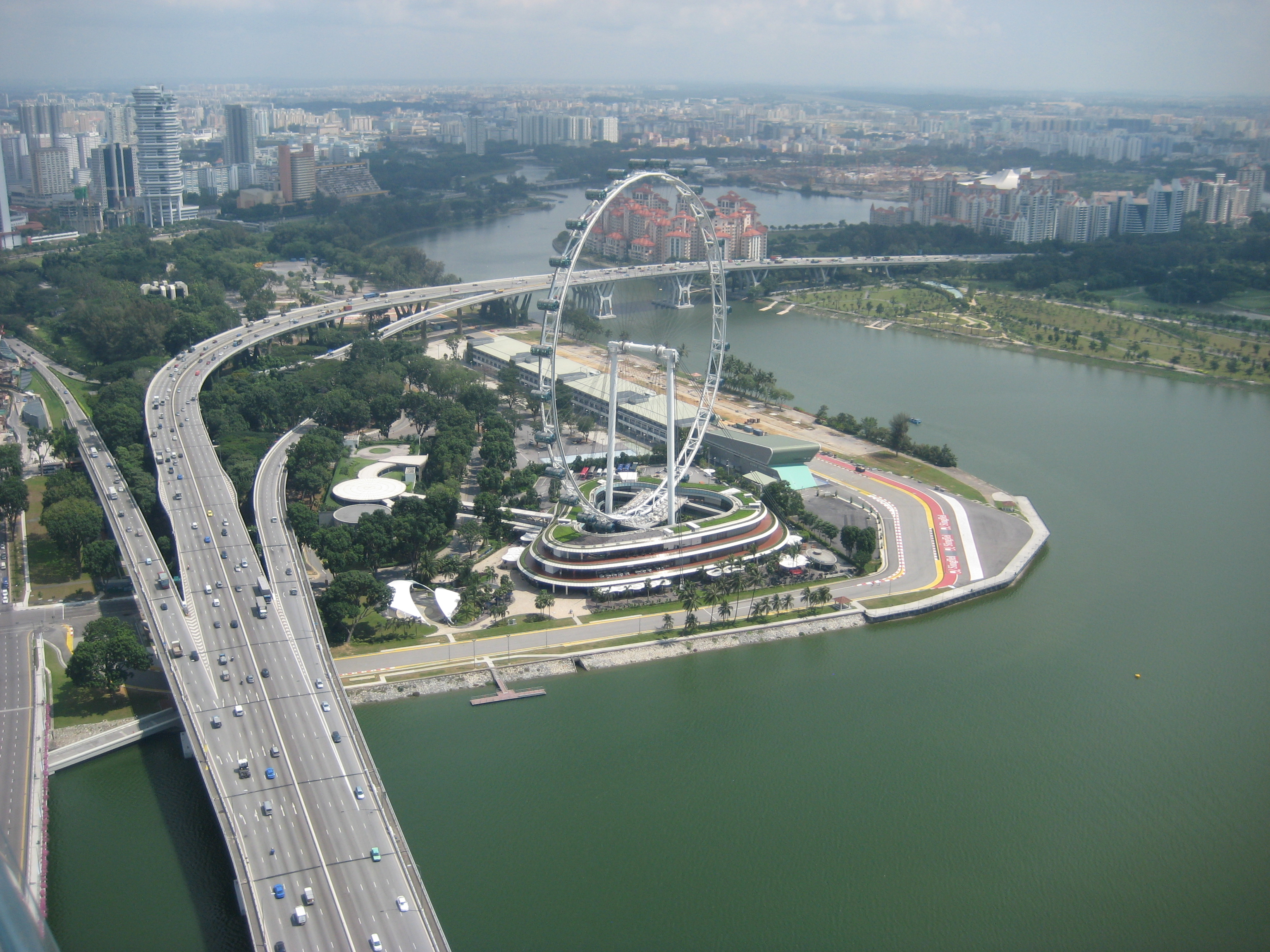 The Singapore Flyer and the pit lane of the Marina Bay Street Circuit, as seen from the Marina Bay Resort.